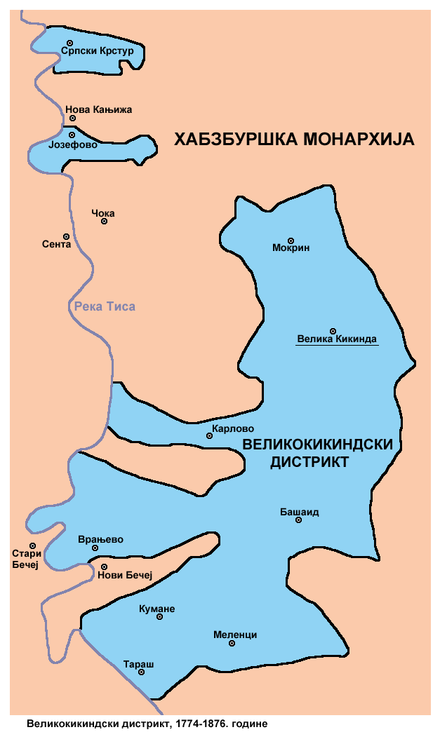 District of Velika Kikinda, 1774-1876.